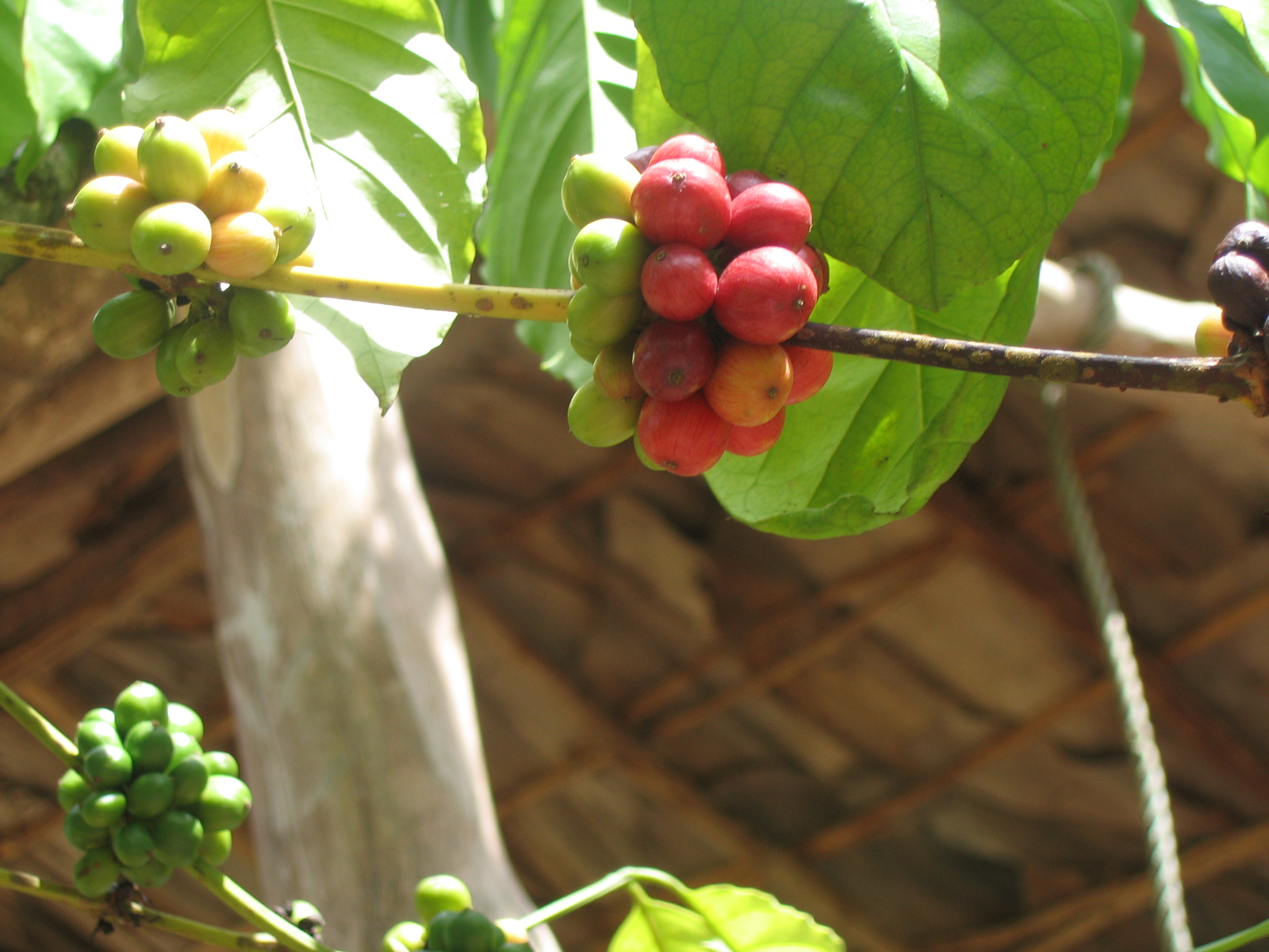 Coffee plant